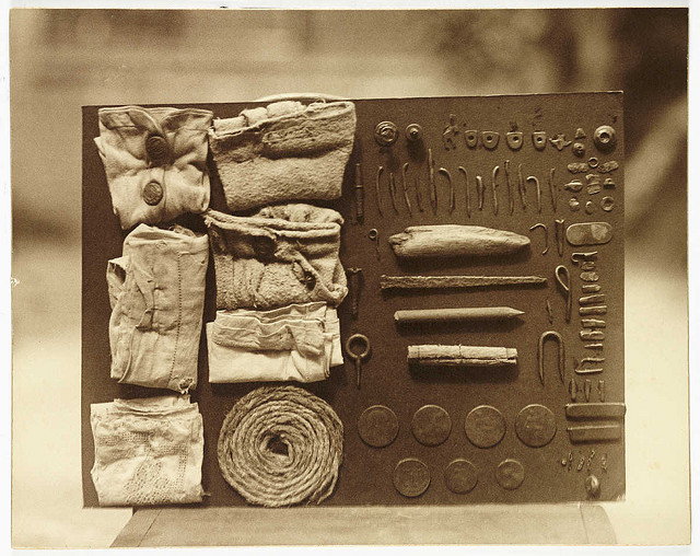 FW Bond (died 5 May 1942) Collection of National Media Museum Frederick Willam Bond was photographer at the Zoological Society of London. Amongst more conventional photographs of the inhabitants of London Zoo, he also photographed objects retrieved from an ostrich's stomach after its death. Details of what it swallowed are written on the back of the print. Somehow, during its lifetime, the poor bird managed to ingest a lace handkerchief, a buttoned glove, a length of rope, a plain handkerchief (probably a man's), assorted copper coins, metal tacks, staples and hooks, and a four-inch nail - a step too far, and the cause of death. We're happy for you to share this digital image within the spirit of The Commons. Certain restrictions on high quality reproductions of the original physical version of apply though; if you're unsure please visit the National Media Museum website. For obtaining reproductions of selected images please go to the Science and Society Picture Library.